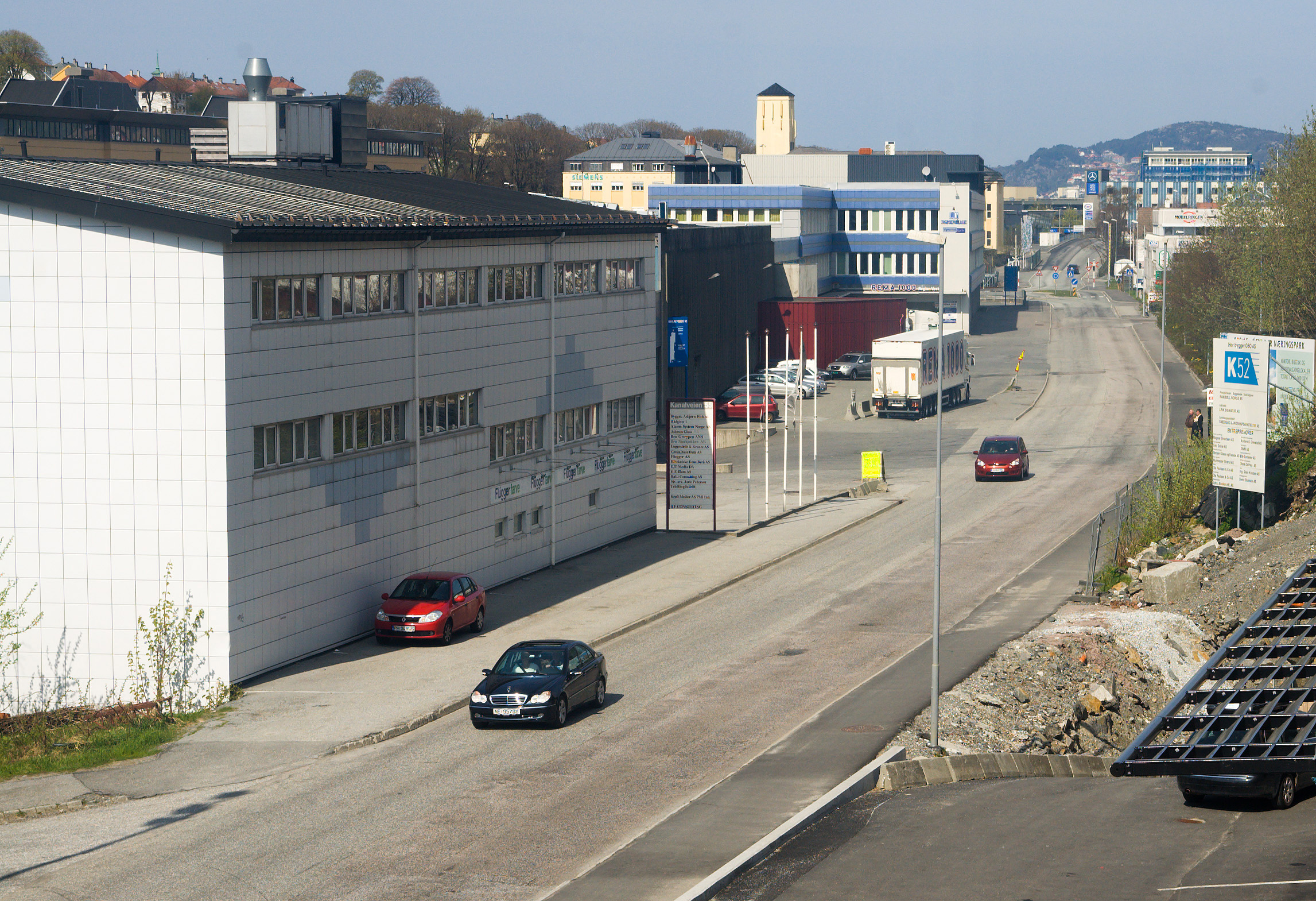 Kanalveien, a road in Bergen, Norway.